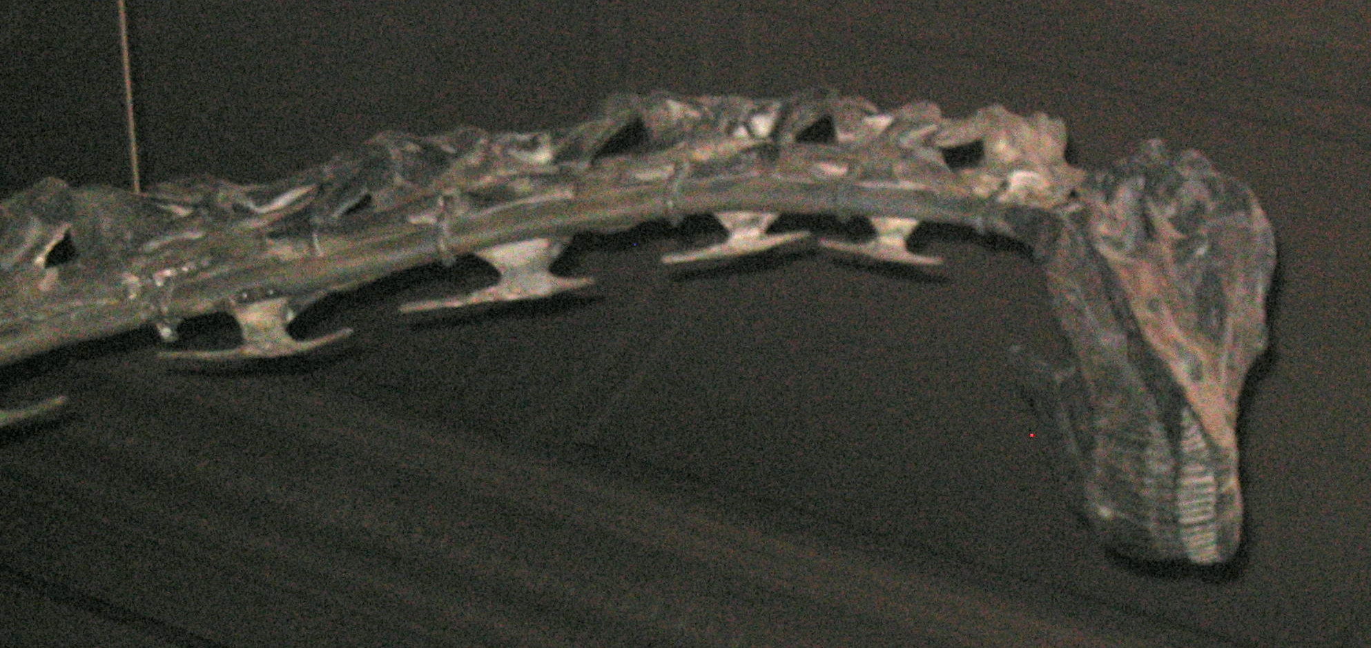 Diplodocus longus skull at the Smithsonian museum of Natural History